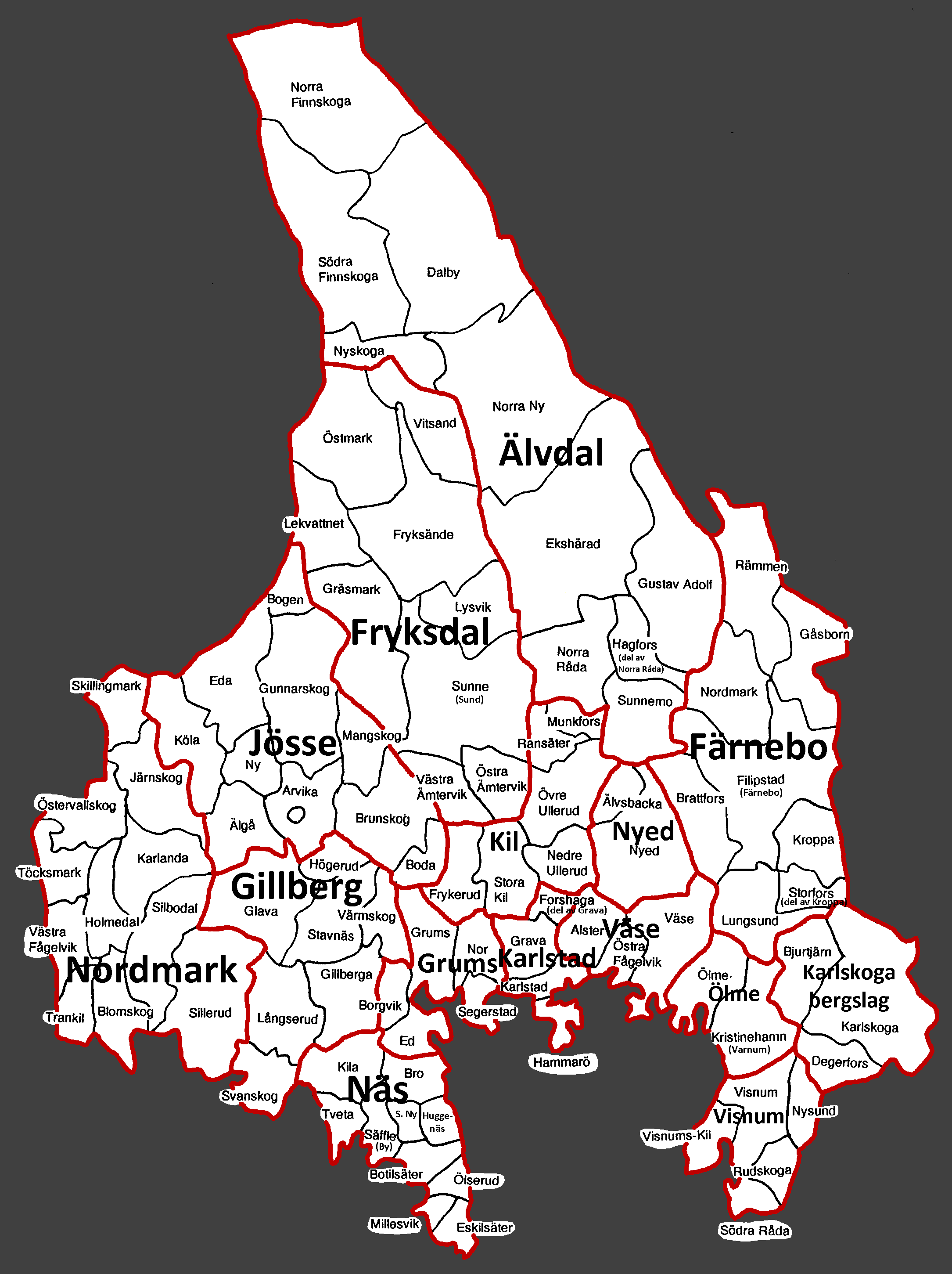 subdivision of Wermlands hundreds